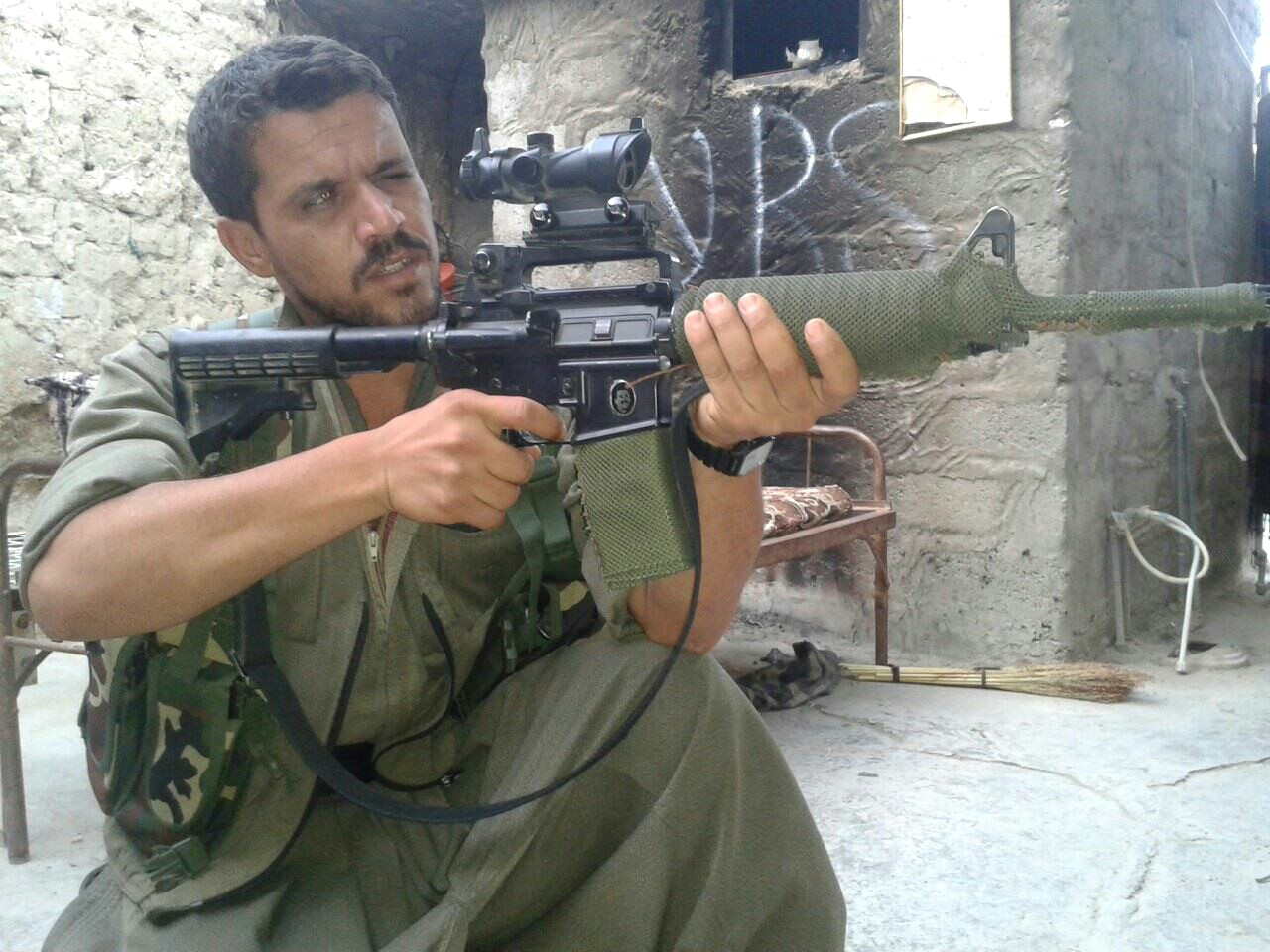 Kurdish PKK Guerilla in Shingal